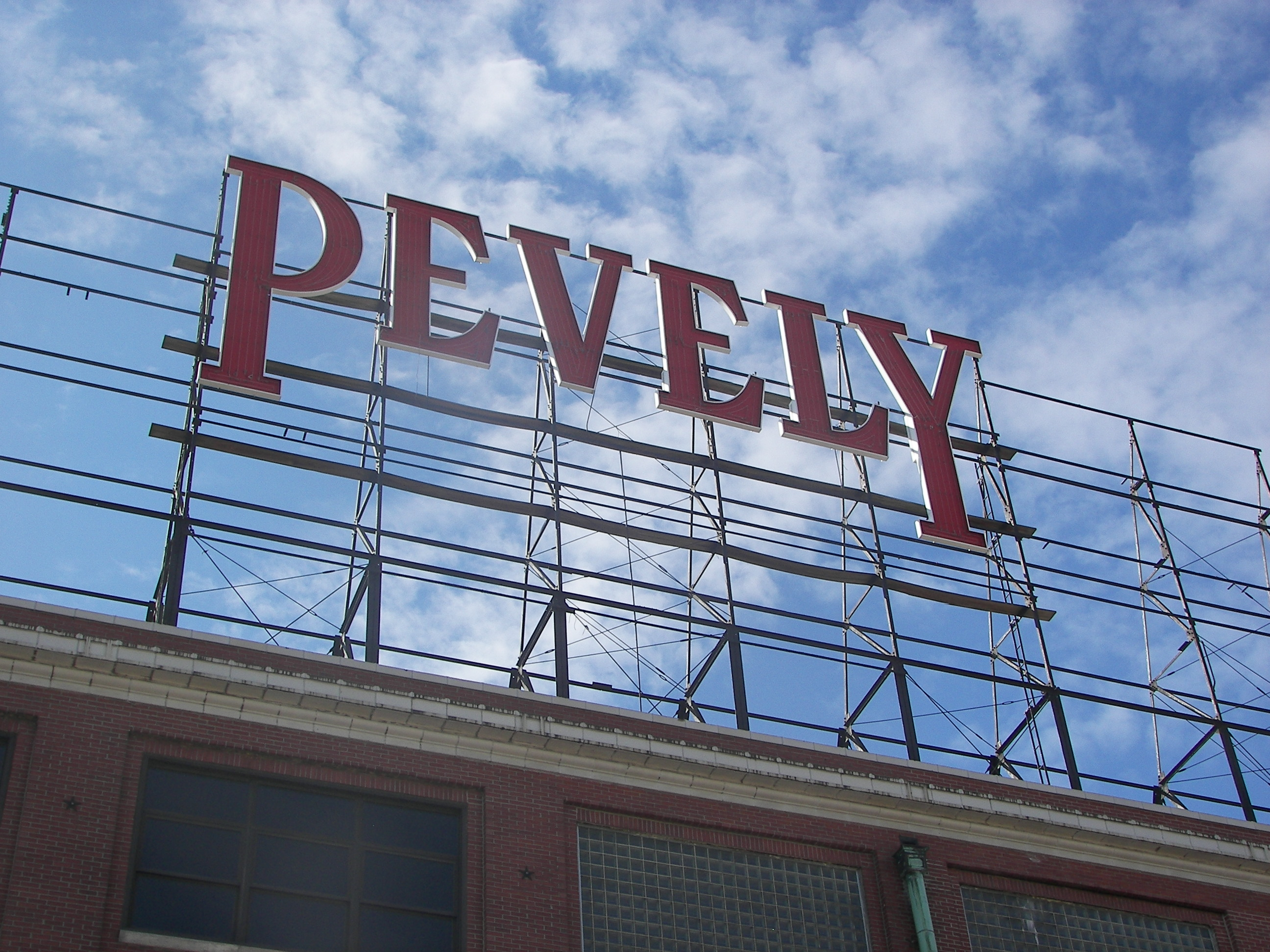 Photograph of marquee sign on the Pevely Dairy Company Plant office building (viewed looking south) at 1001 S. Grand Avenue, St. Louis, Missouri